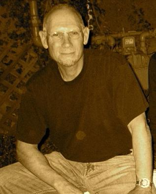 Dennis Genpo Merzel